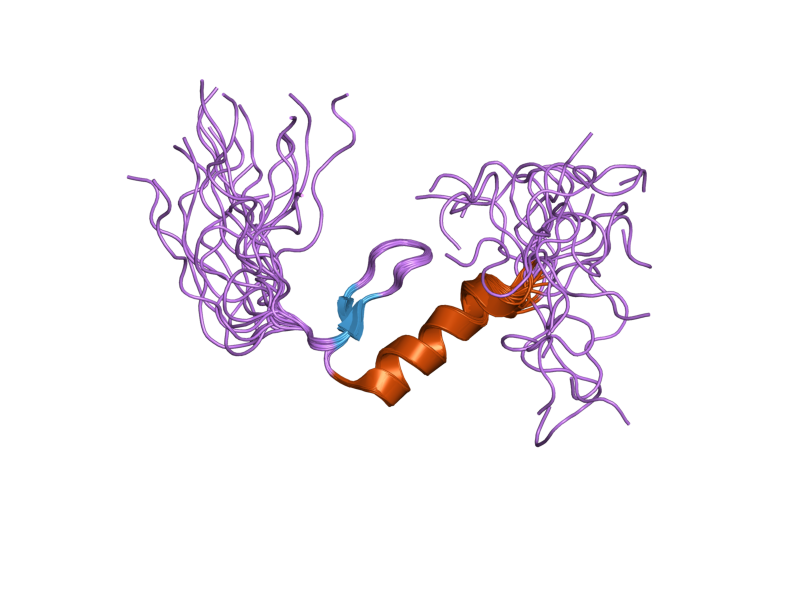 Cartoon representation of the molecular structure of protein registered with 2eor code.